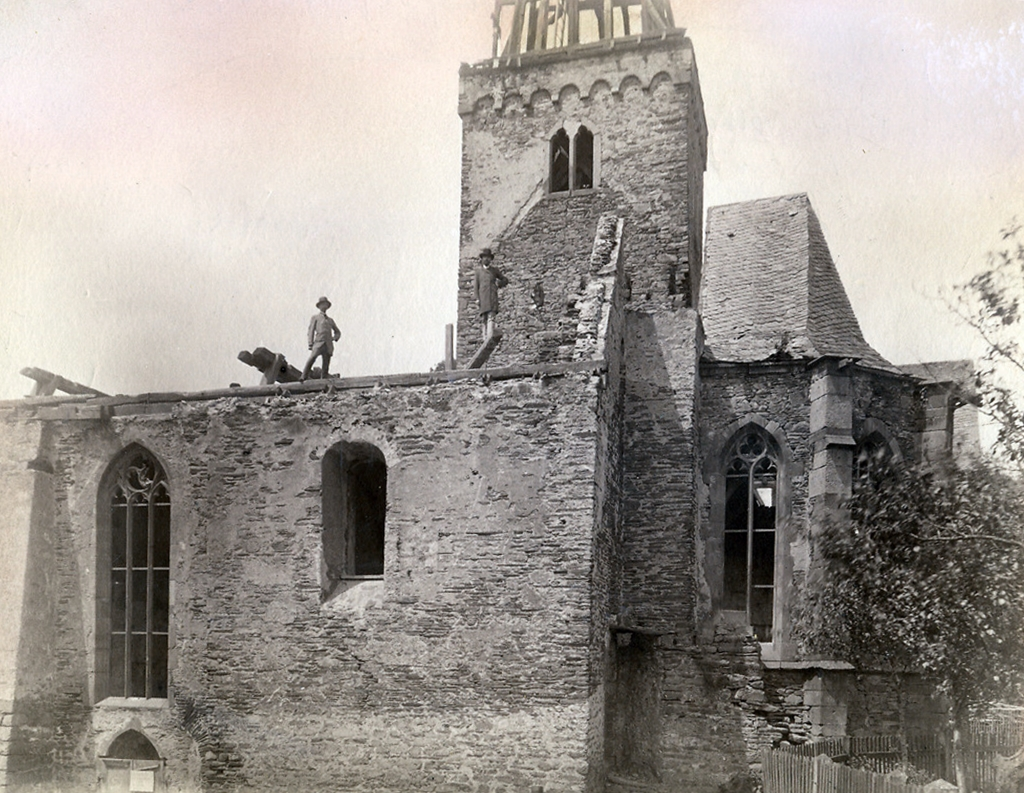 Biedenkopf, Germany: demolition of Johanneskirche (photo taken in 1888).